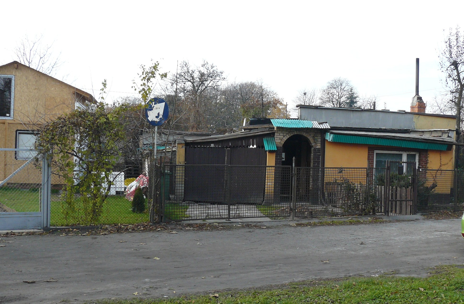 Maltanskie District - Poznan.